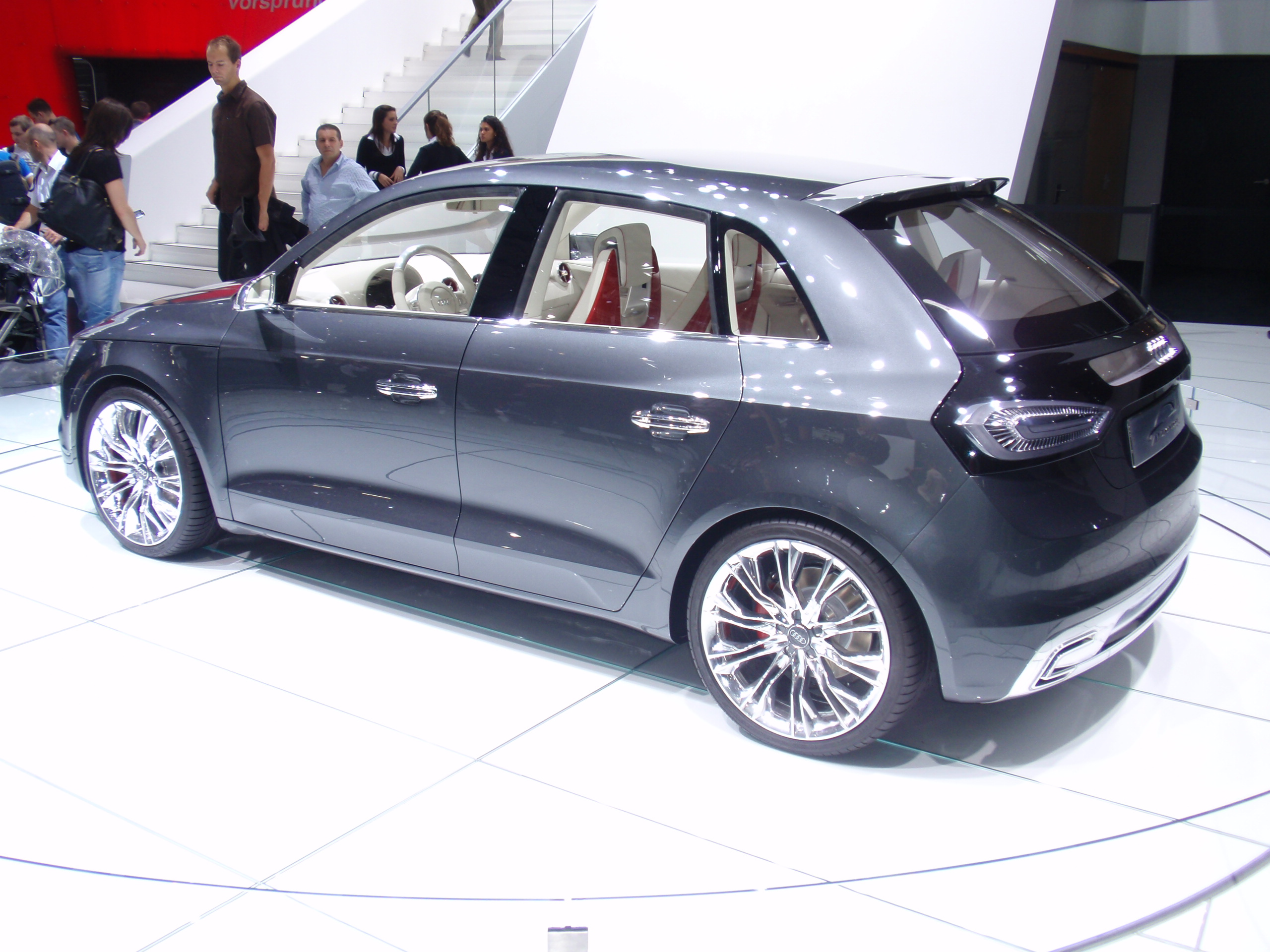 Audi A1 Sportback Concept at the Mondial de l'Automobile 2008 in Paris